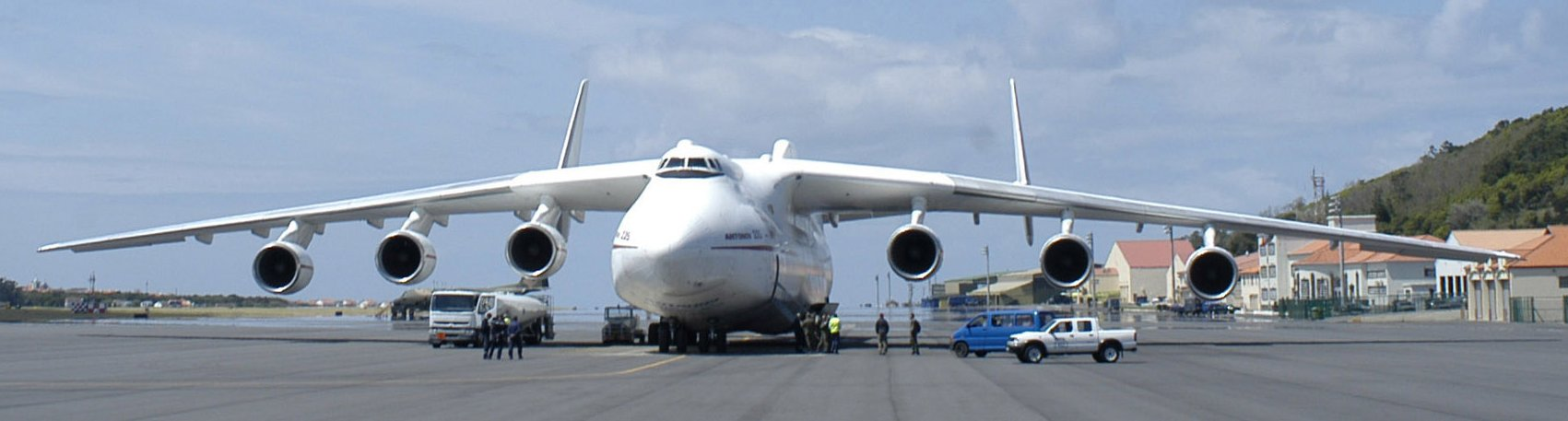 Portuguese and American workers tend to the Antonov An-225 Mriya, or "Dream", April 28 on the flightline at Lajes Field, Azores. The aircraft landed here to refuel and get serviced. Currently the world's largest aircraft, the An-225 was designed mainly to transport the Russian space shuttle and its components from a service area to a launch site.